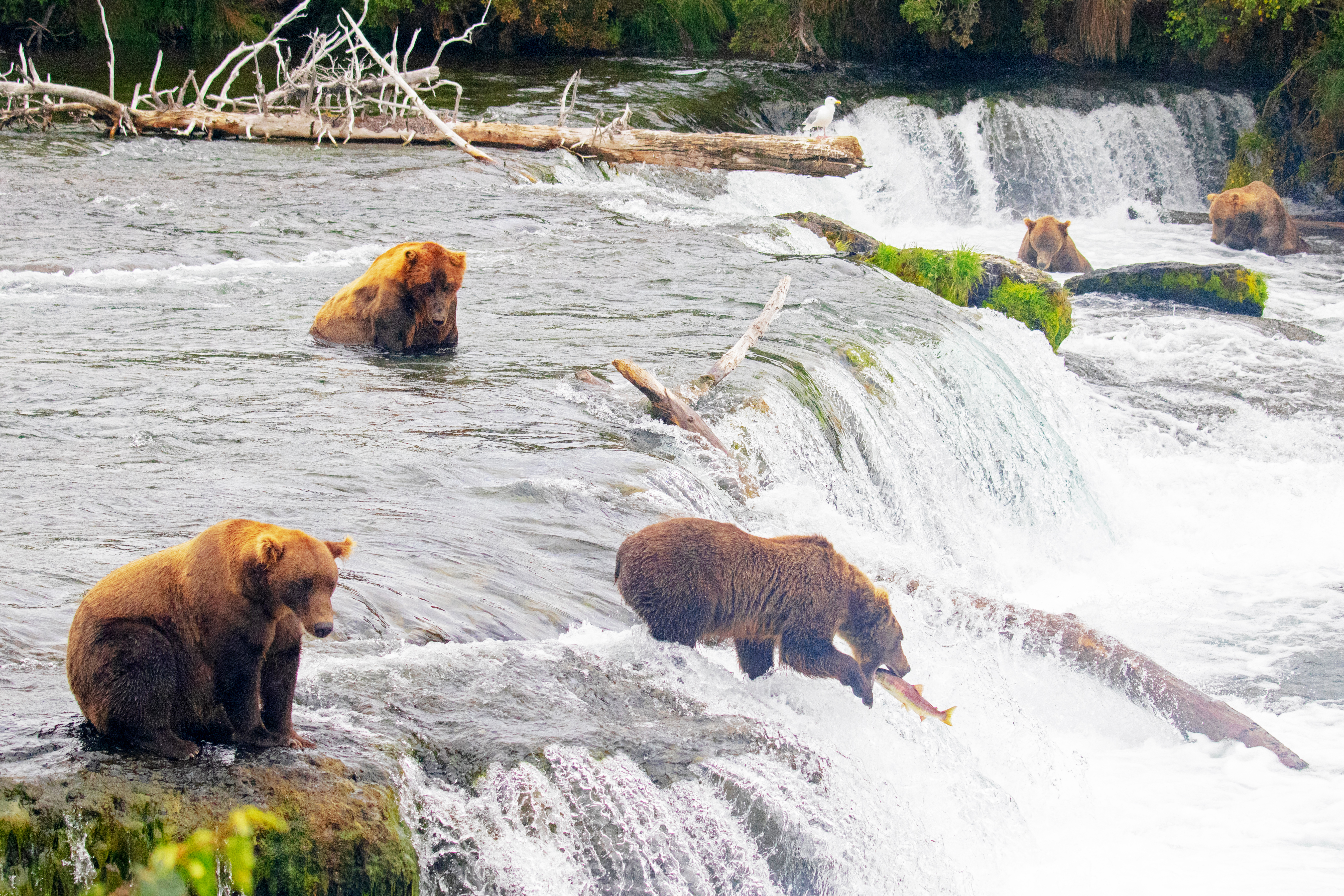 photo showing one of the bears catching a salmon